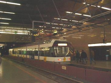 Underground tram in Antwerp, Belgium in the Meir station. Line 15.